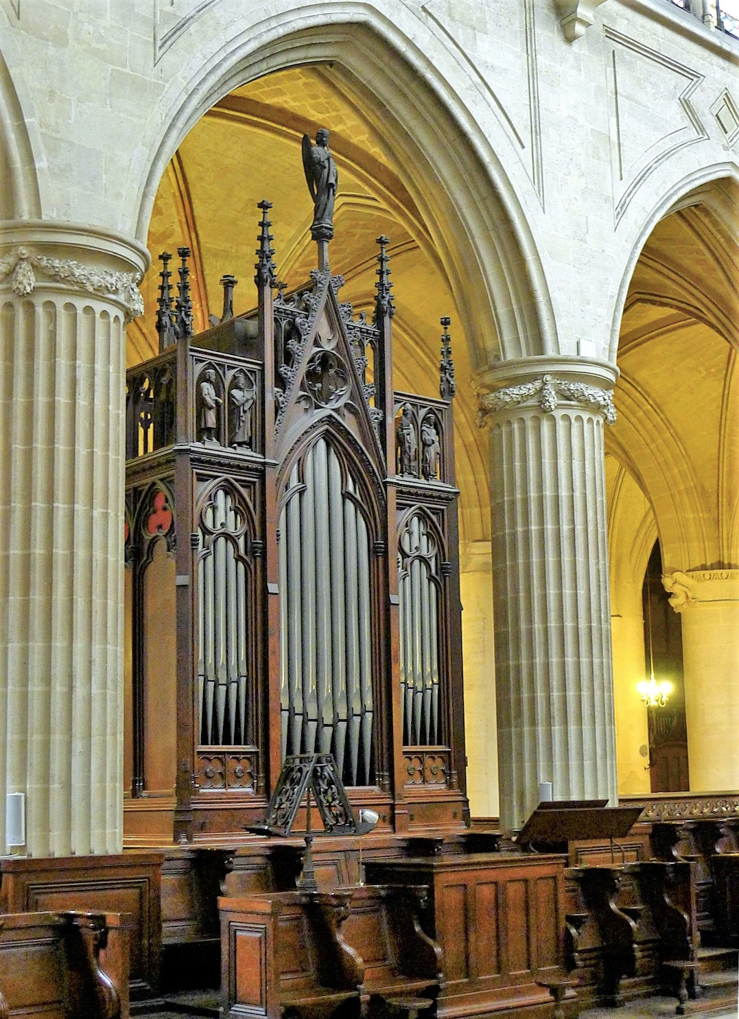 Saint-Germain l'Auxerrois church - Paris